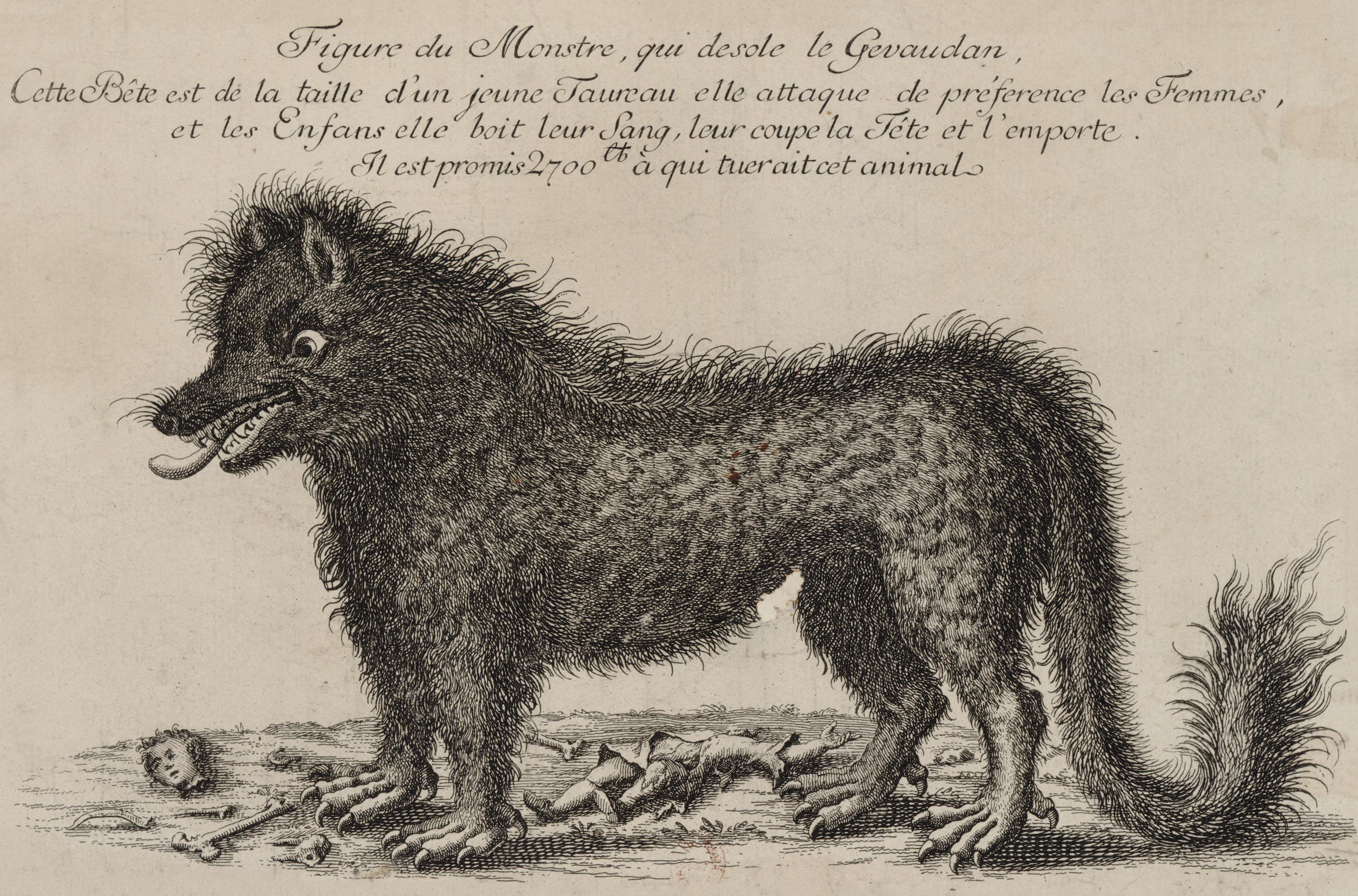 Translation of the text above the drawing: "Drawing of the monster that afflicts Gevaudan. This beast is the size of a young bull. It prefers to attack women and children. It drinks their blood, cuts their head off, and carries them away. 2700 francs are promised to who kills this animal."